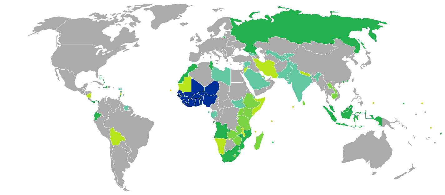 Visa-free & Visa-on-arrival countries for Cape Verdeans